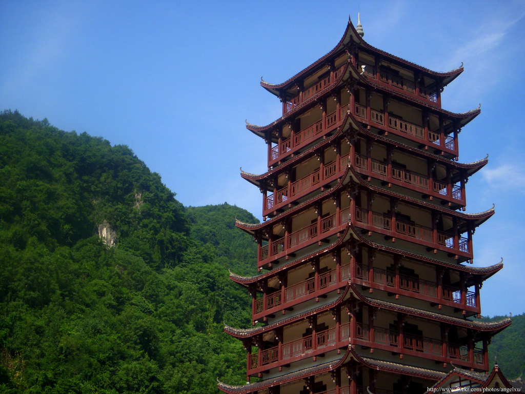 spinning on that dizzy edge.